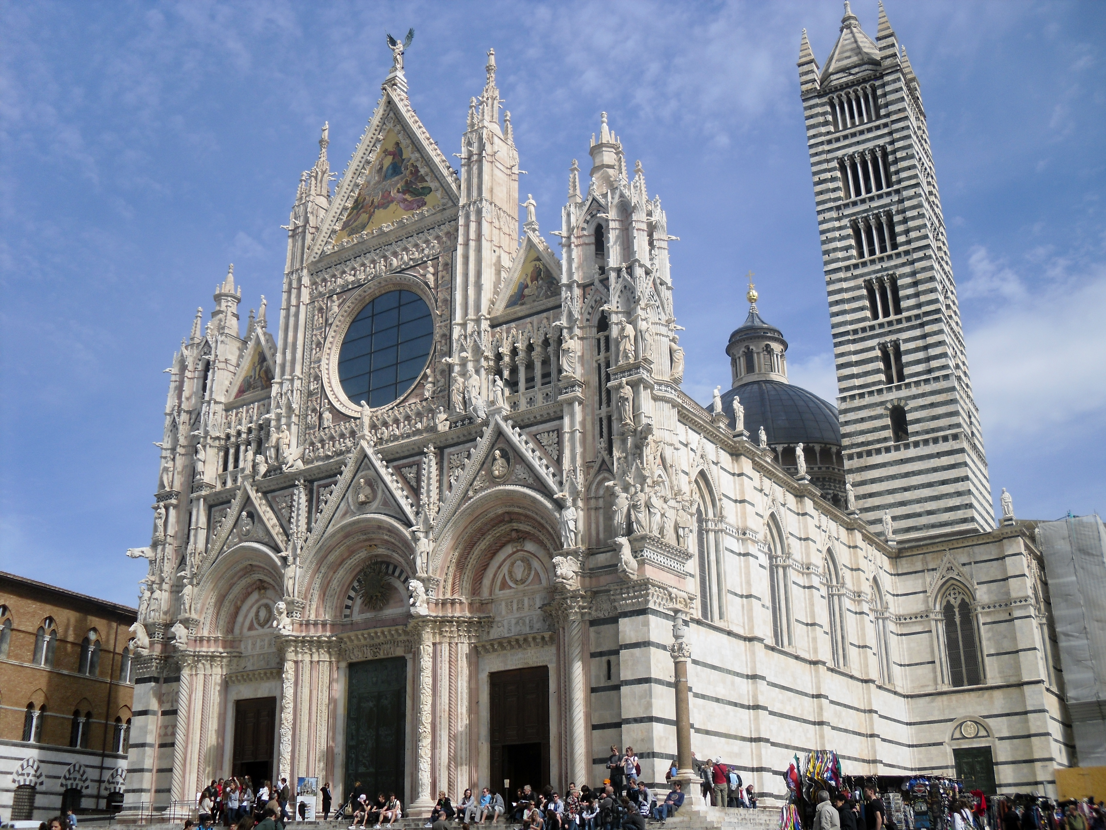 Sienna Cathedral